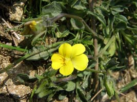 Flower found in Belasitsa Mountain